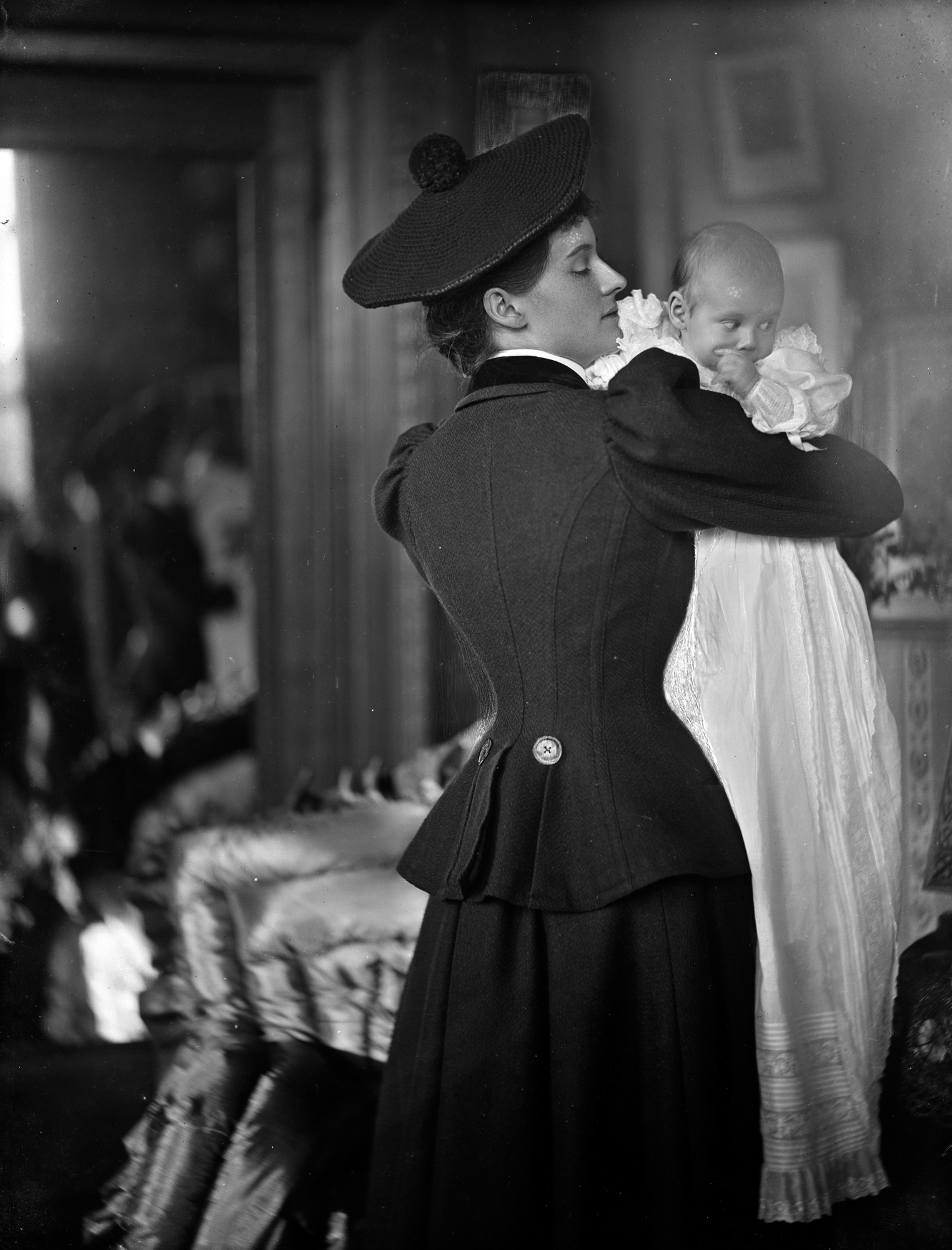 Blue or Pink? A girl or boy? Which gender was Lady Waterford's baby in this beautiful image from the Poole Collection? We had noted that some mothers might give an arm and a leg to have a comparable waistline - certainly after having such a fine bouncing baby. Today's contributors however point-out that perhaps someone in Poole studio "enhanced" elements of the photo :) On "who/when", the consensus is that the baby pictured (mercifully not "enhanced") is Lady Waterford's first child, born in 1898. The baby girl was given a name bigger than herself: Lady Blanche Maud de la Poer Beresford. She was the daughter of Henry Beresford (6th Marquess Waterford), and Beatrix Petty-FitzMaurice (Marchioness of Waterford). Lady Waterford remarried after the death of the Marquess, and was later styled Duchess of St Albans. (A different/later "Duchess of St Albans" from the one we met last week..... I know. I'm confused too :) ) Photographer: A. H. Poole Collection: Poole Photographic Studio, Waterford Date: Catalogue range c.1901-1954. Though likely c.1898 NLI Ref: POOLEWP 1013 You can also view this image, and many thousands of others, on the NLI’s catalogue at